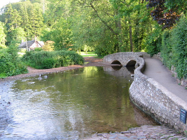 Gallox Bridge - Dunster, Somerset. Gallox Bridge is a medieval packhorse bridge, which crosses the River Avill in Dunster.